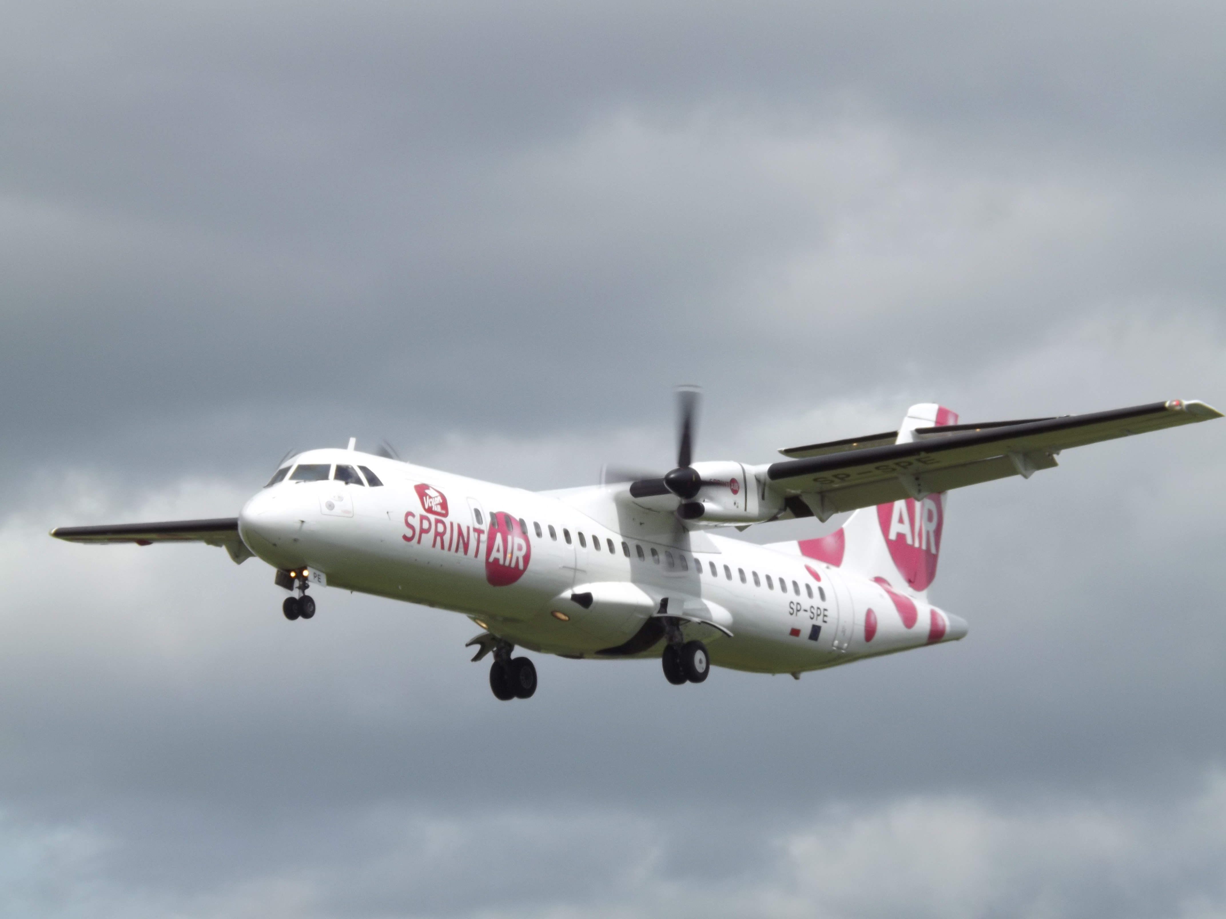 At Gloucestershire Airport.